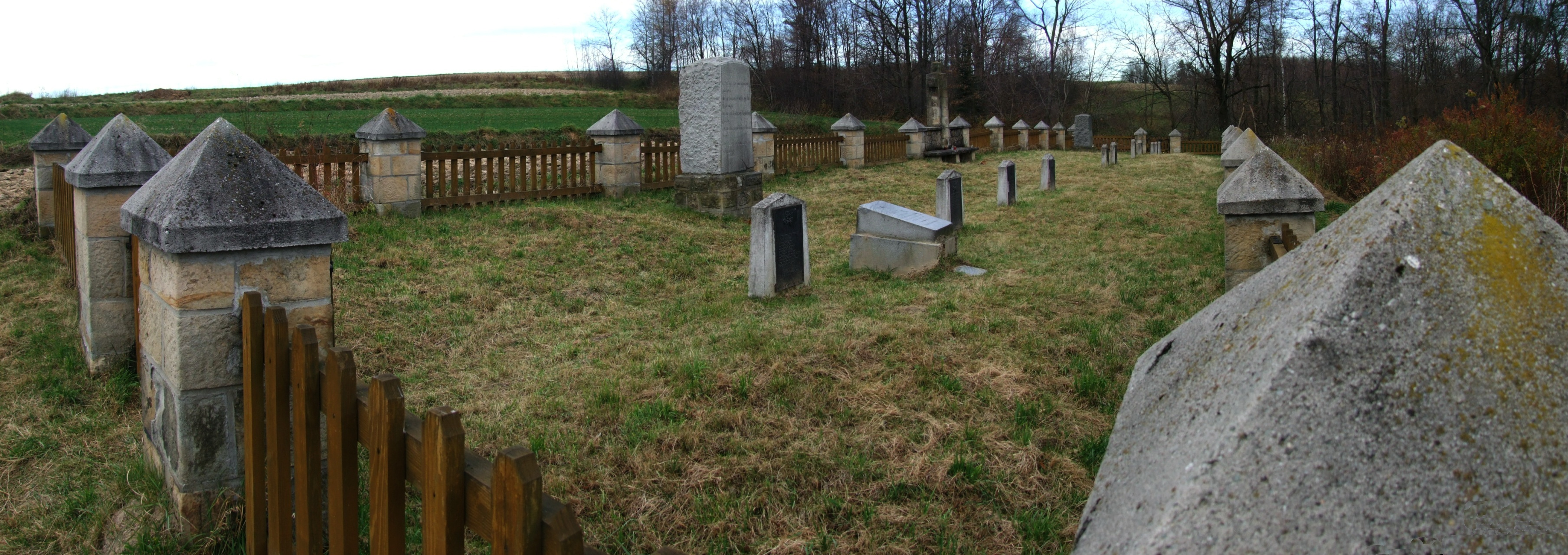 World War I Cemetery nr 306 in Łąkta Dolna